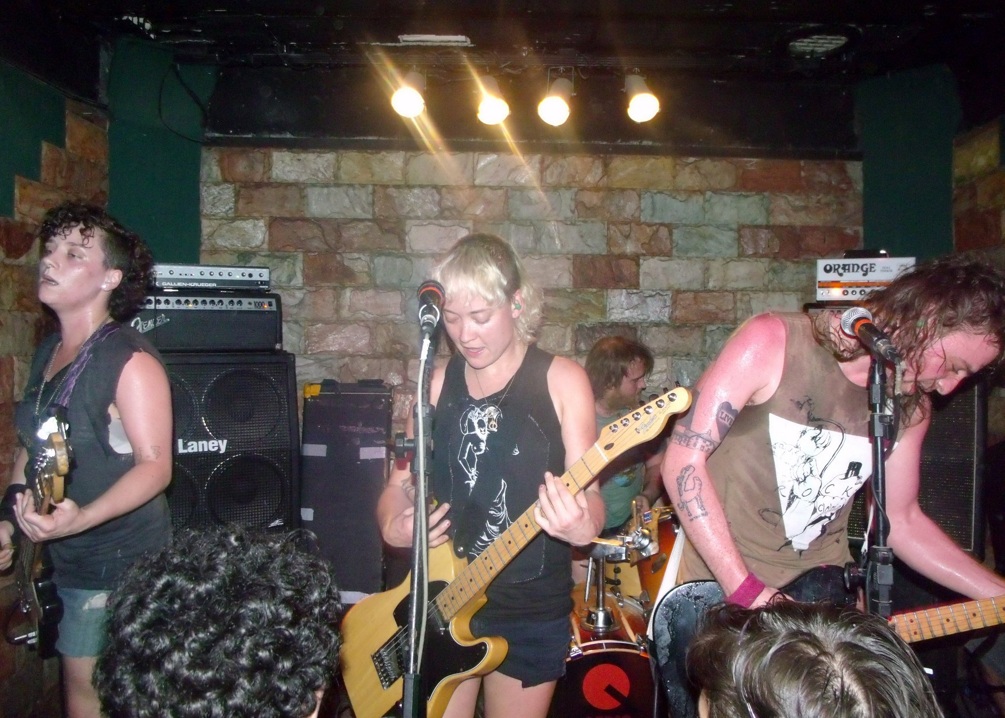 RVIVR